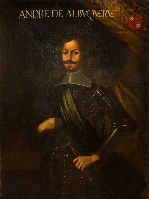 Portrait painting of André de Albuquerque Ribafria (1621-1659), painted 1673-1675 by Feliciano de Almeida. Currently at Galleria degli Uffizi, Florence, Italy.